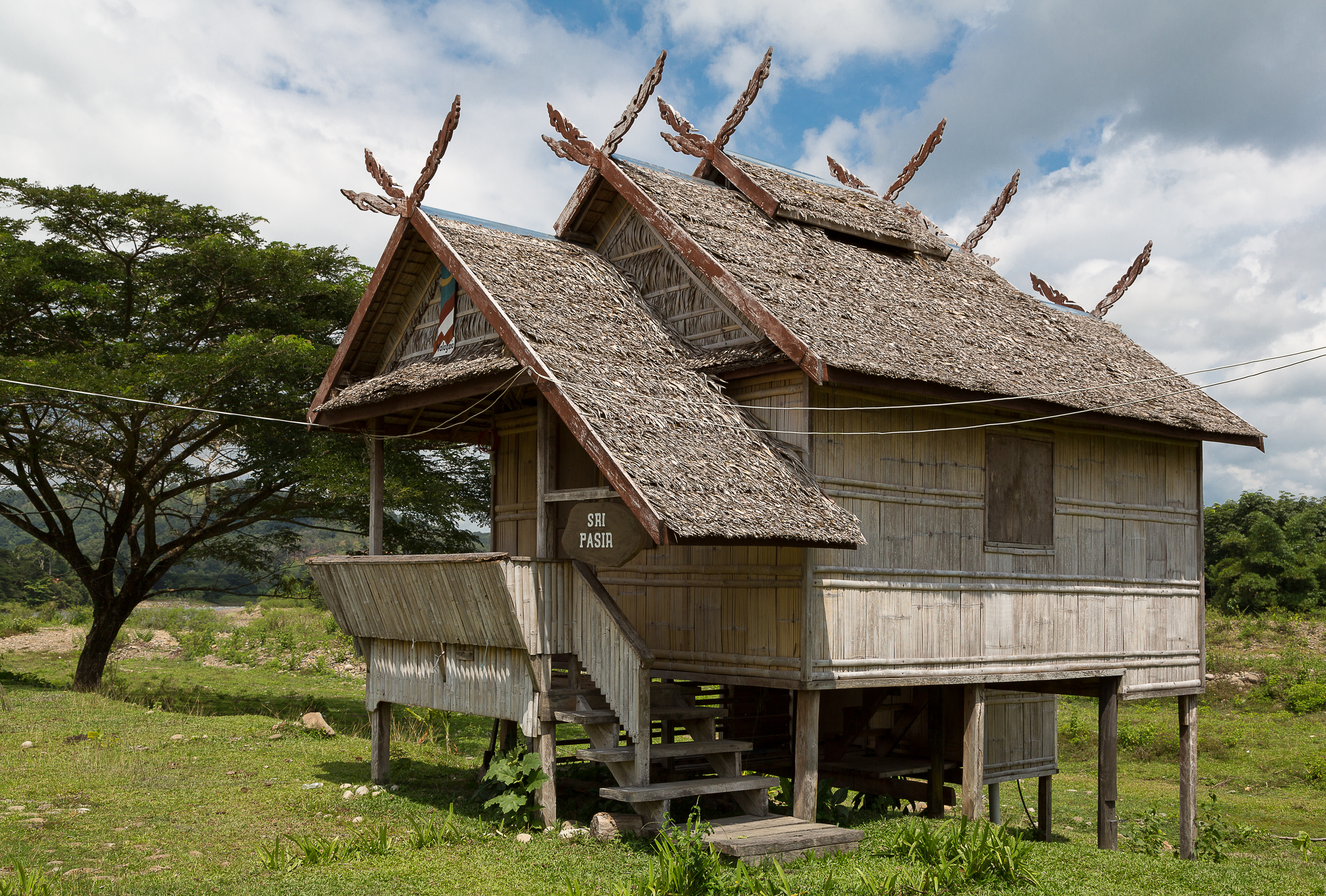 Tambulian, Kota Belud, Sabah: Heritage house project. The traditional houses are located on the green, opposite of SK Tambulian